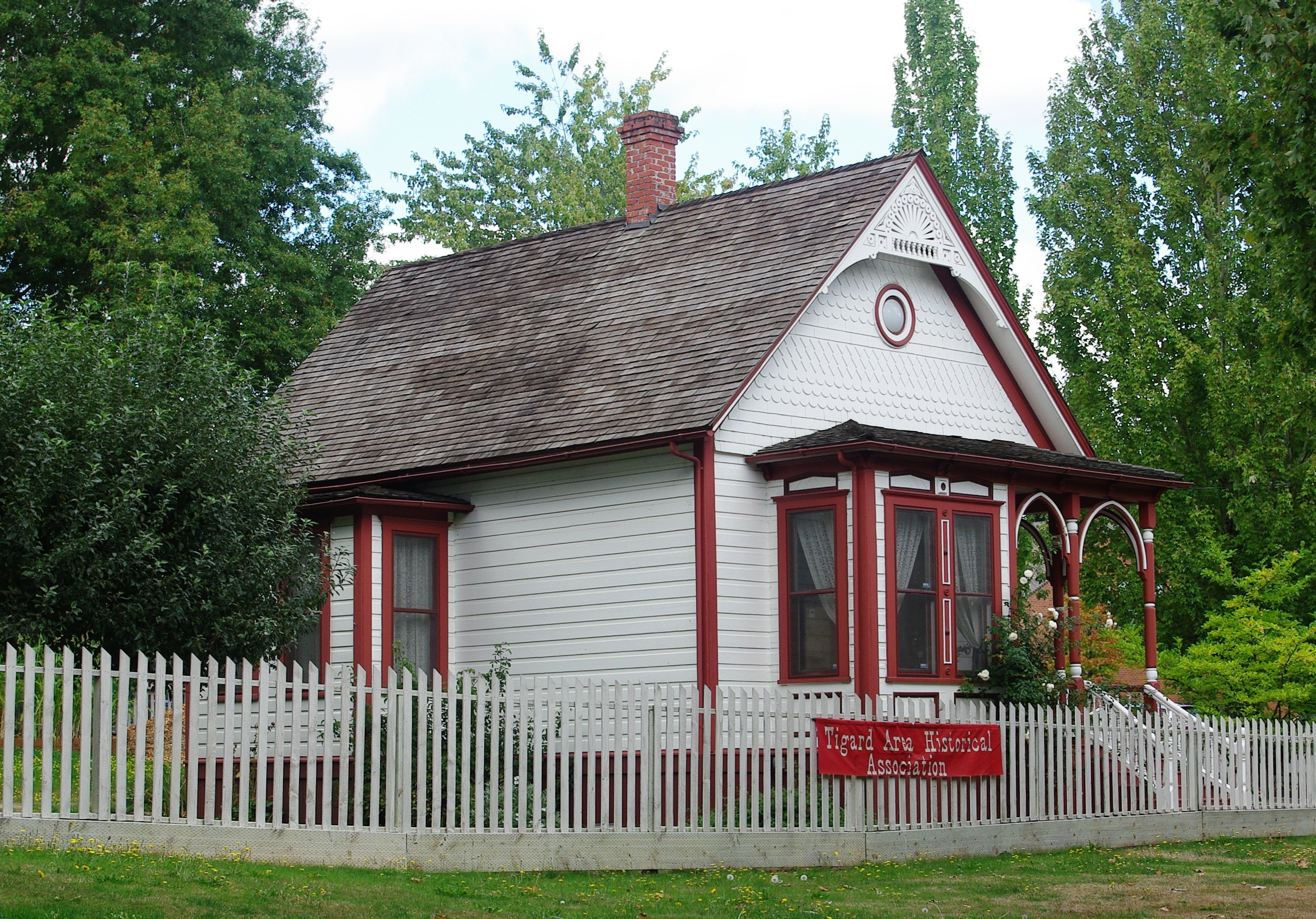 NRHP listed John Tigard House in Tigard, Oregon.